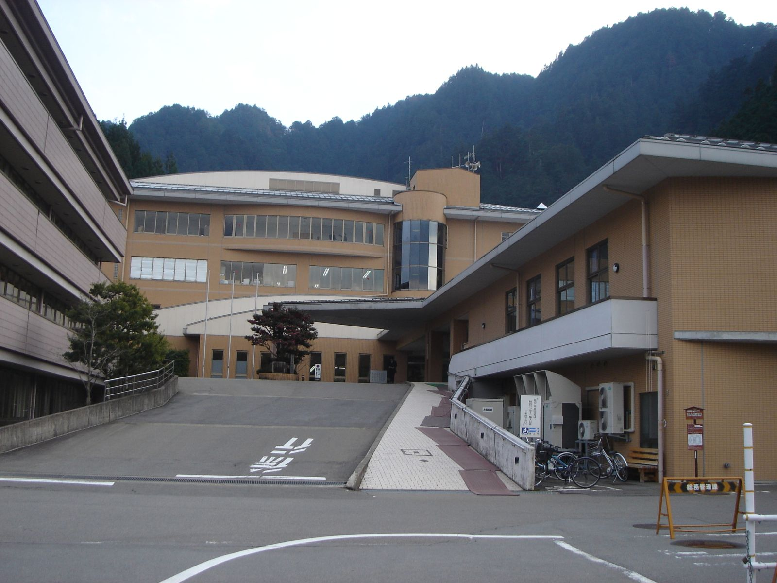 Gujo City hall（郡上市市役所）,Gujo,Gifu,Japan(岐阜県郡上市八幡町島谷)で撮影。